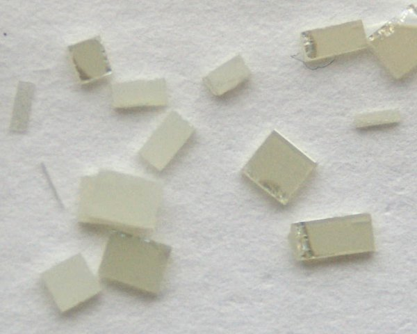 TiO2 synthetic crystals, ~2 mm in size